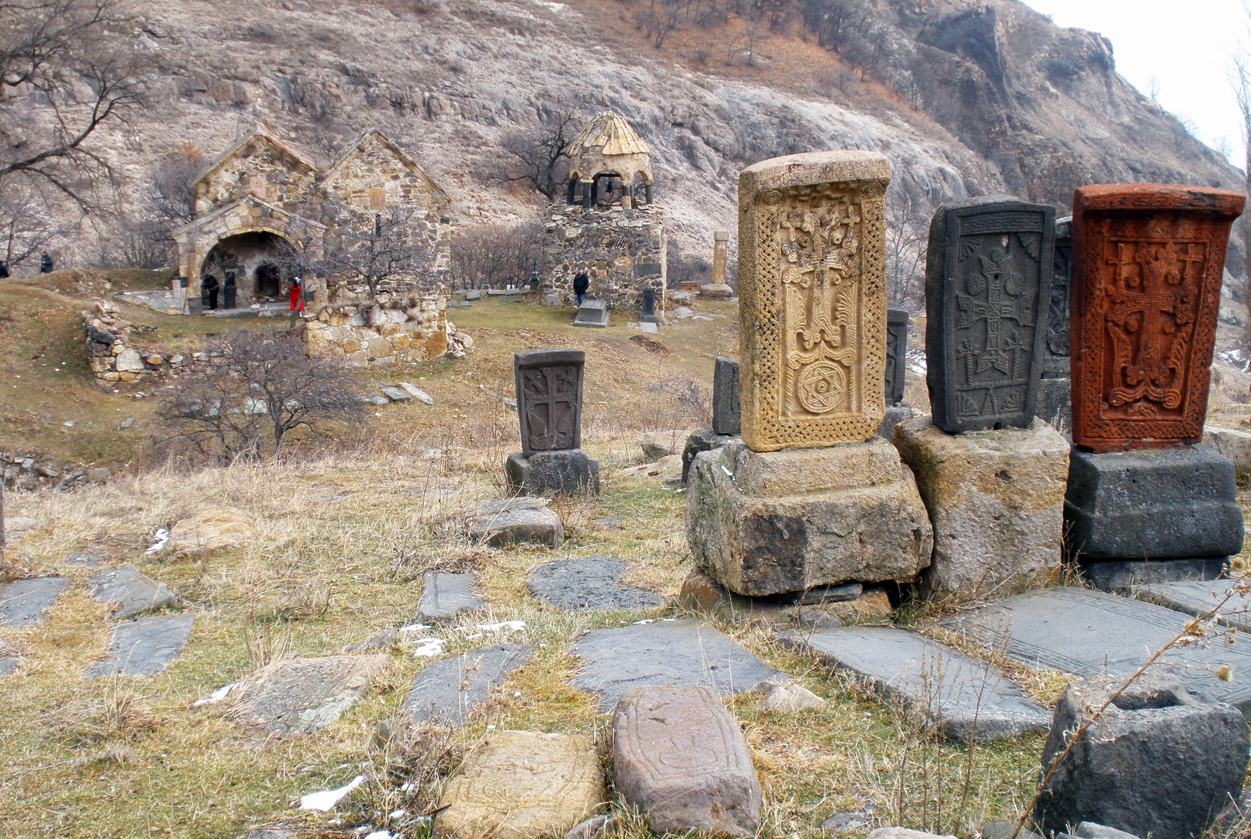 Ardvi, Surb Hovanes Monastery, upper cemetery